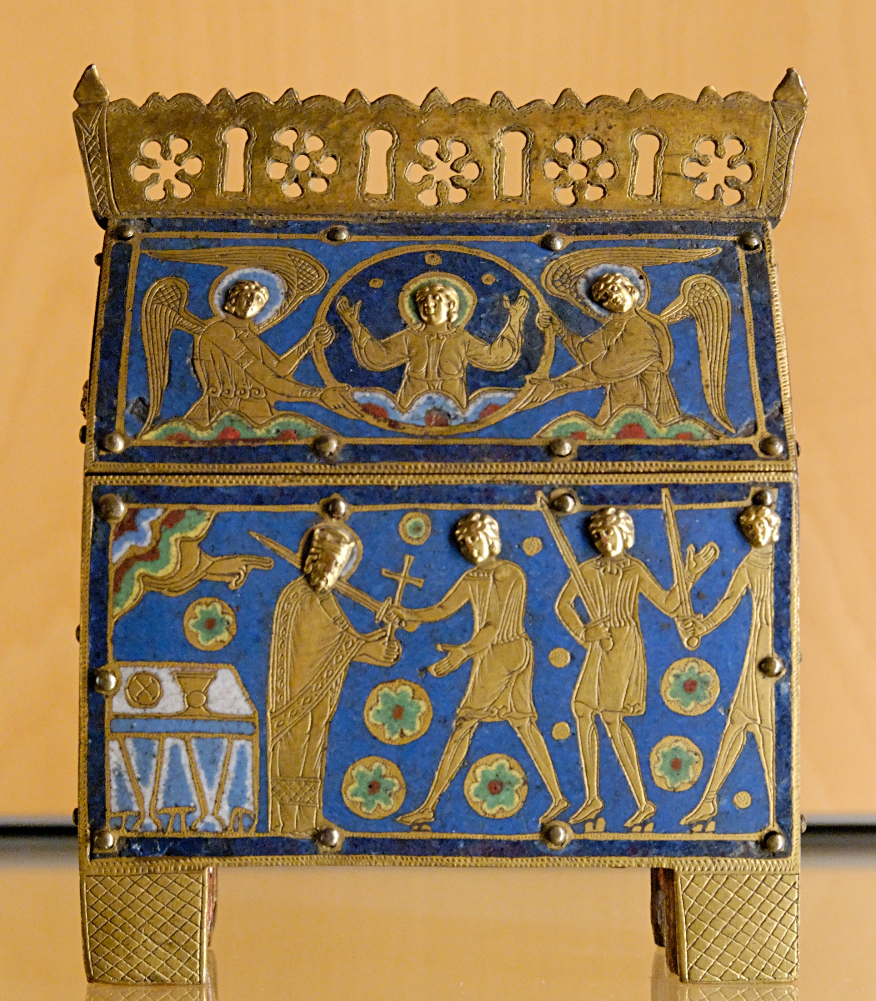 Reliquary with the muder of St. Thomas Becket. Champlevé, enameled and gilt copper, Limoges, ca. 1210.